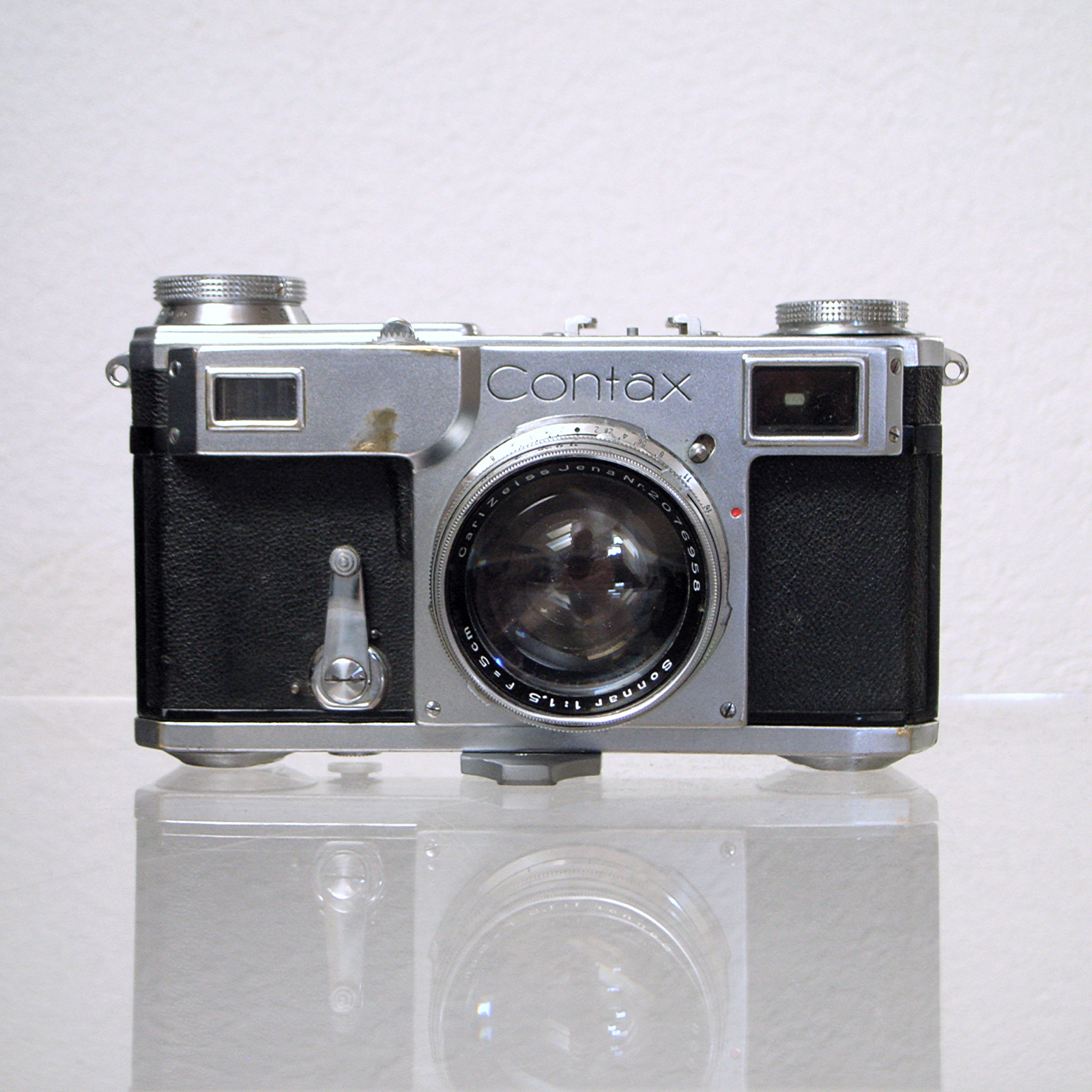 Not in my possession any more. I just had it to test. Miss it, though.